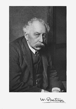 sepia portrait of William Bateson